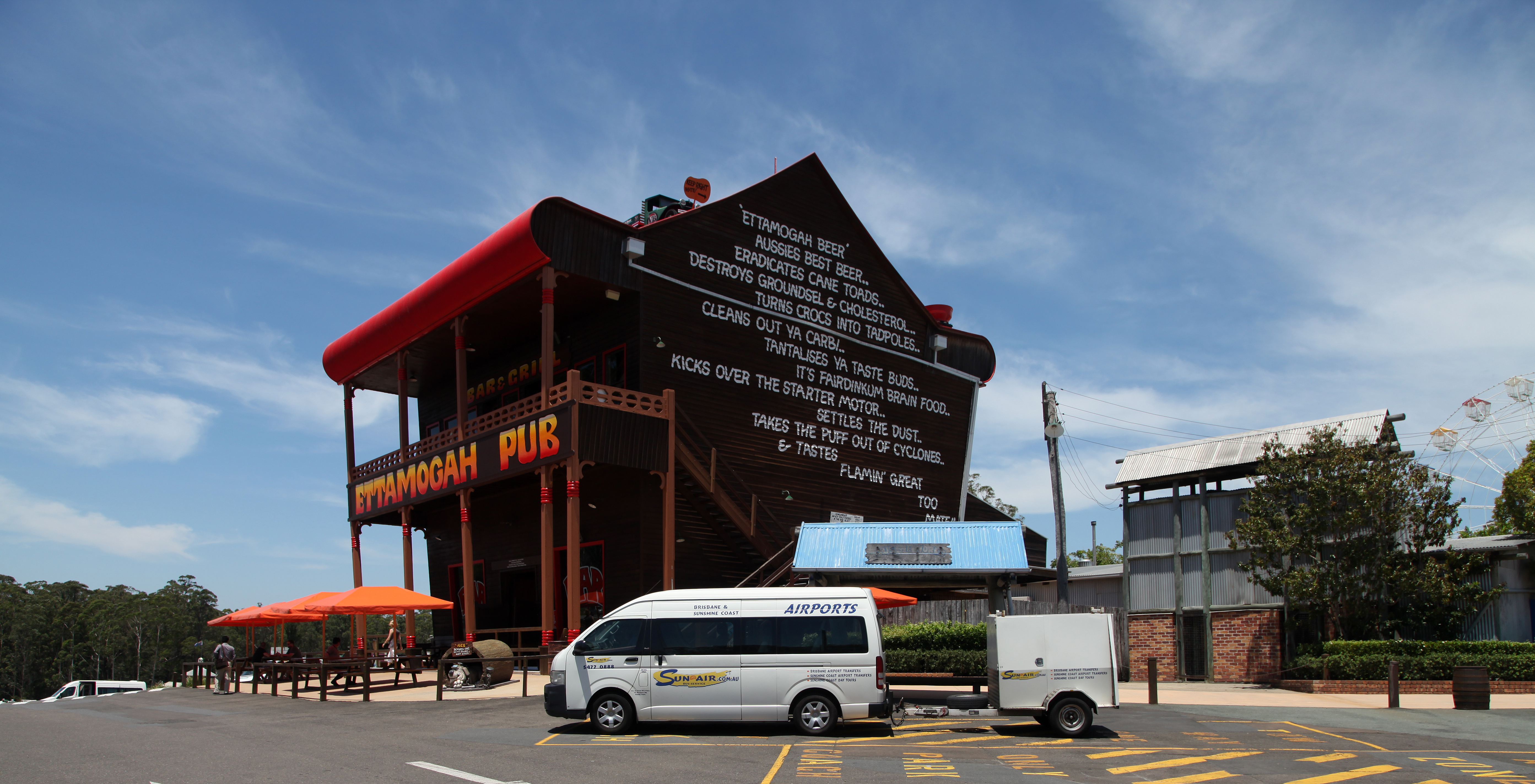 Aussie World & the Ettamogah Pub, Palmview, Queensland